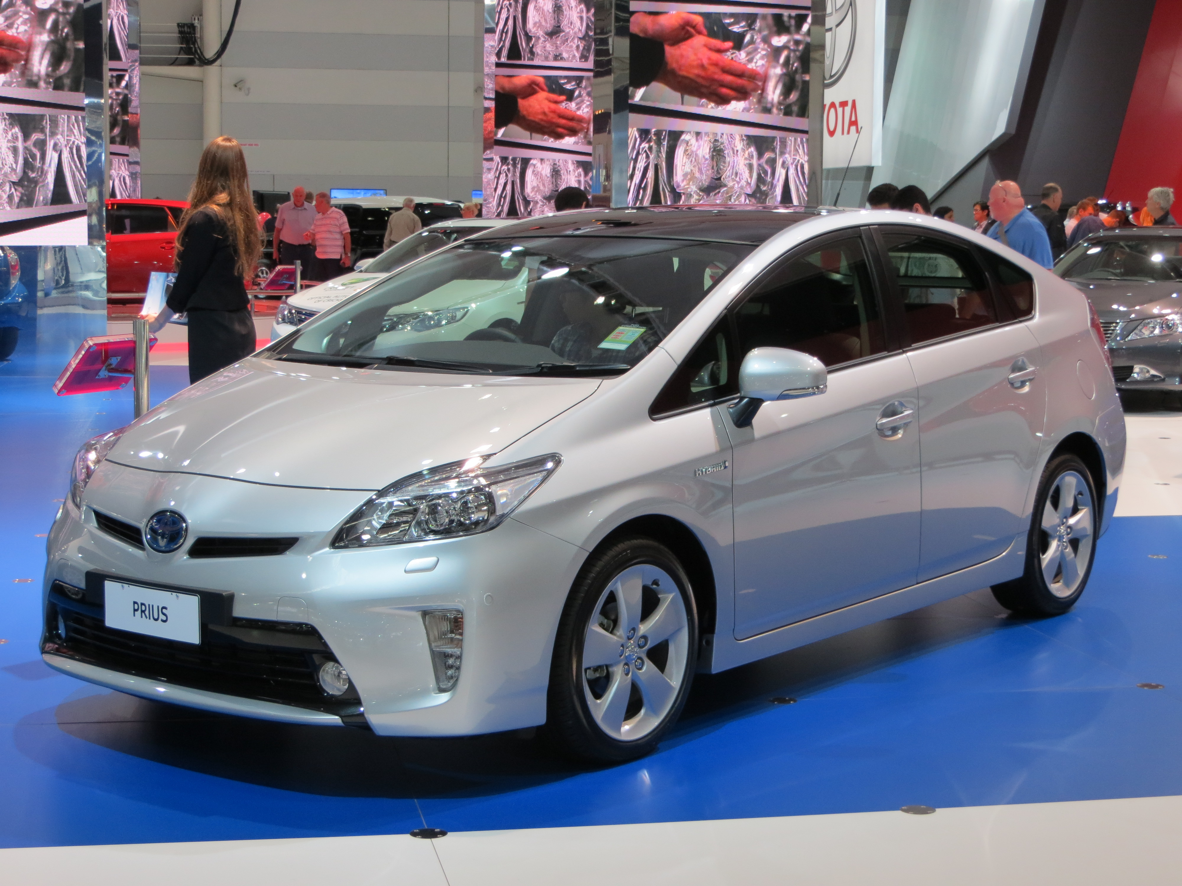 2012 Toyota Prius (ZVW30R MY12) i-Tech liftback. Photographed at the 2012 Australian International Motor Show, Sydney, New South Wales, Australia.